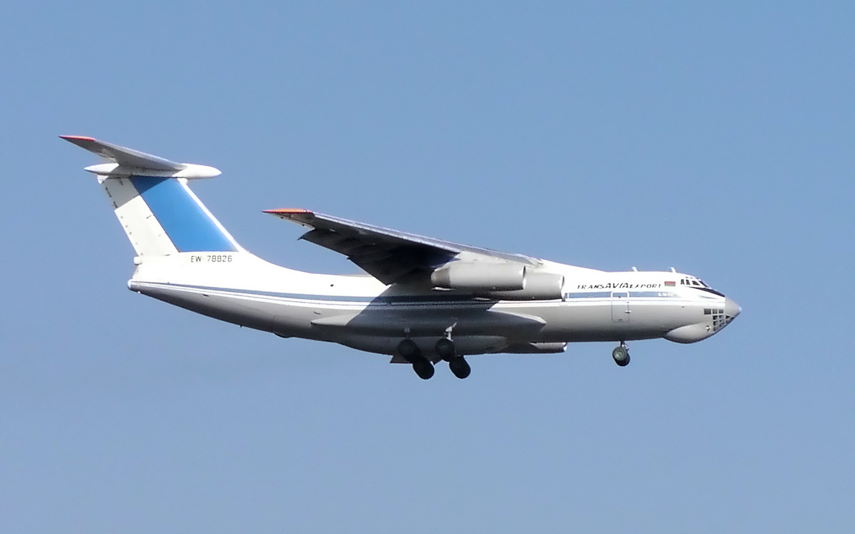 Transaviaexport Ilyushin Il-76TD (EW-78826) in Frankfurt (EDDF)